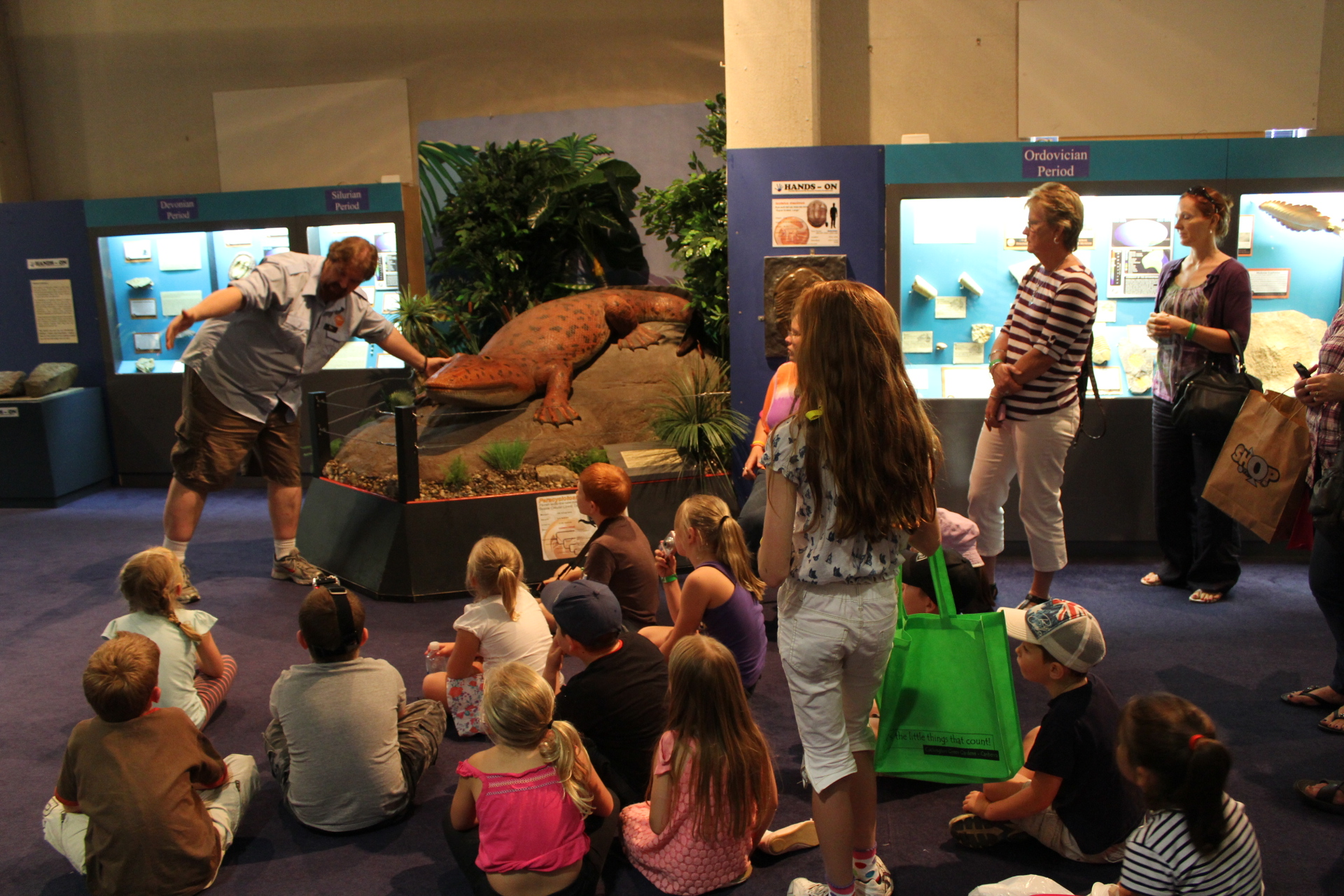 Guided tour with one of the experienced guides at the National Dinosaur Museum